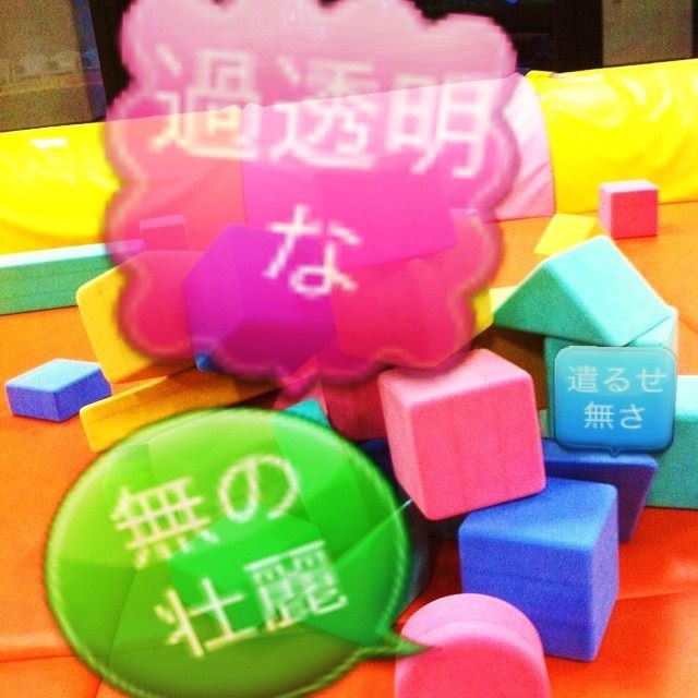 This is an AR poetry picture. "過透明な" means "Overtransparent", "無の壮麗" means "splendid of nothing".